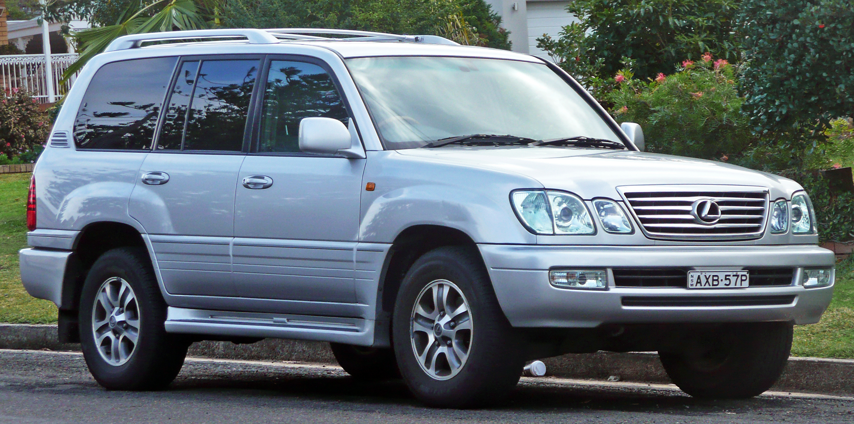 2005 Lexus LX 470 (UZJ100R MY06) wagon. Photographed in Cronulla, New South Wales, Australia.